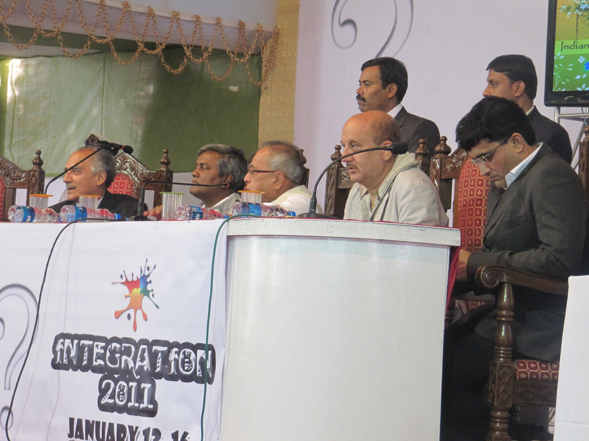 Panel discussion at integration '11